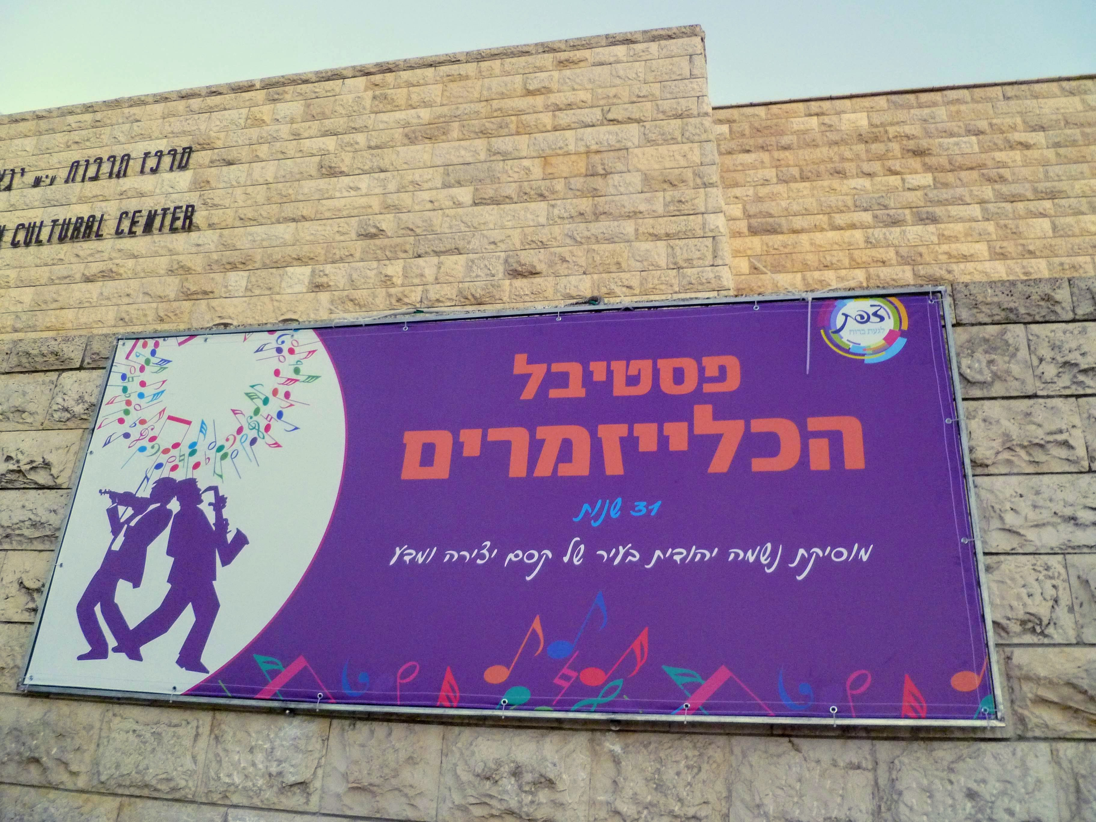 Klezmer Festival, August 2018 sign